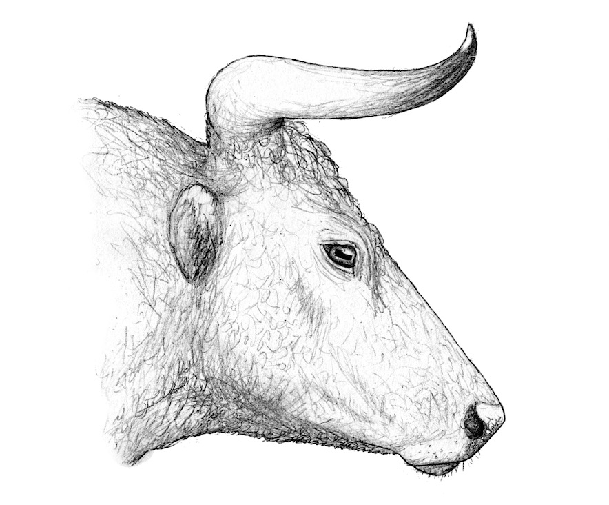 Life restoration of an aurochs, based on a photo of the Lund specimen.